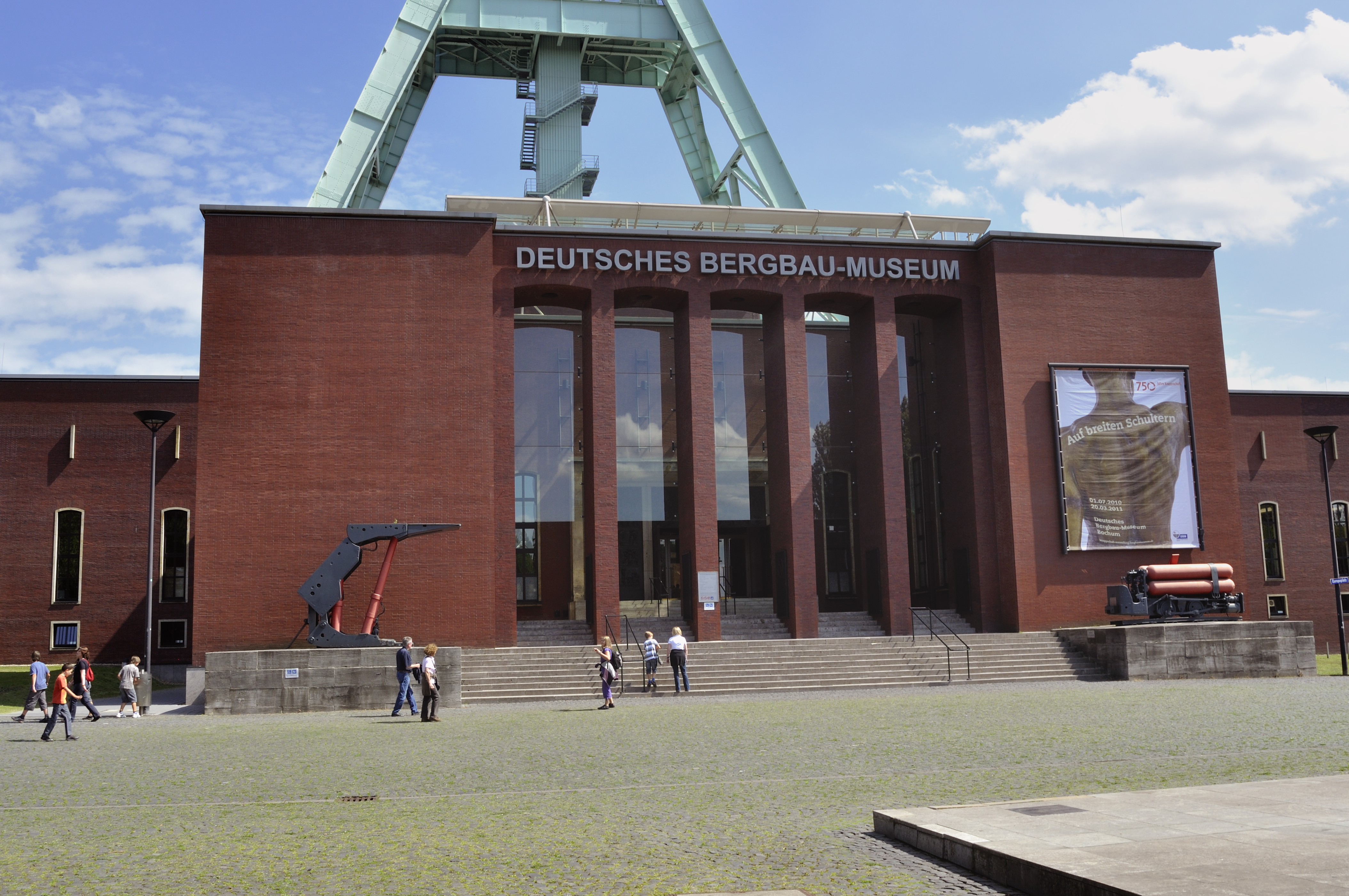 Picture taken in German mining museum Bochum before Duisburg summer meetup.